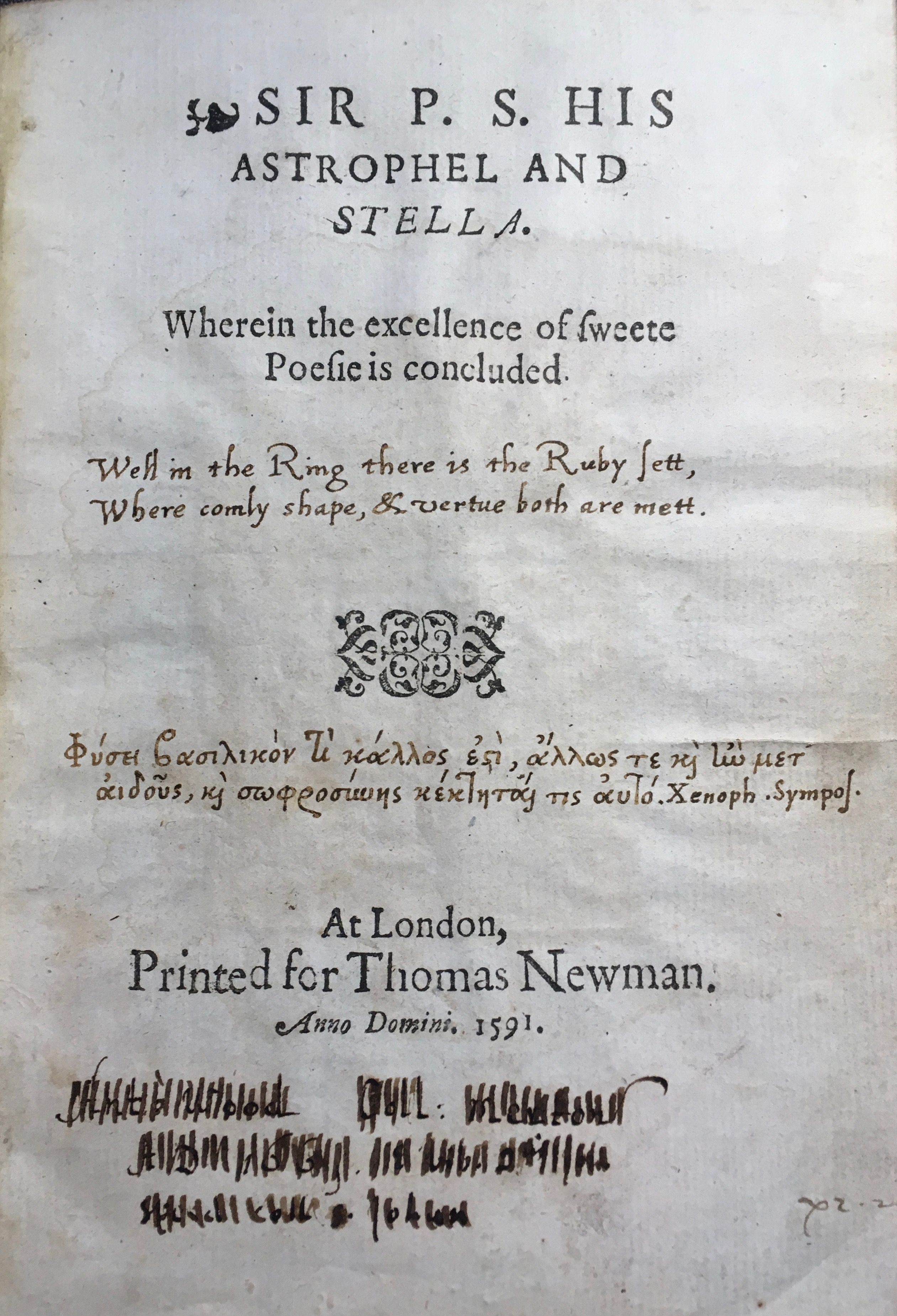 The title page of the second edition of Astrophel & Stella by Sir Philip Sidney, cropped to a reasonably straight angle. Copy in the possession of the British Library, system number 003378348, shelfmark G.11544.